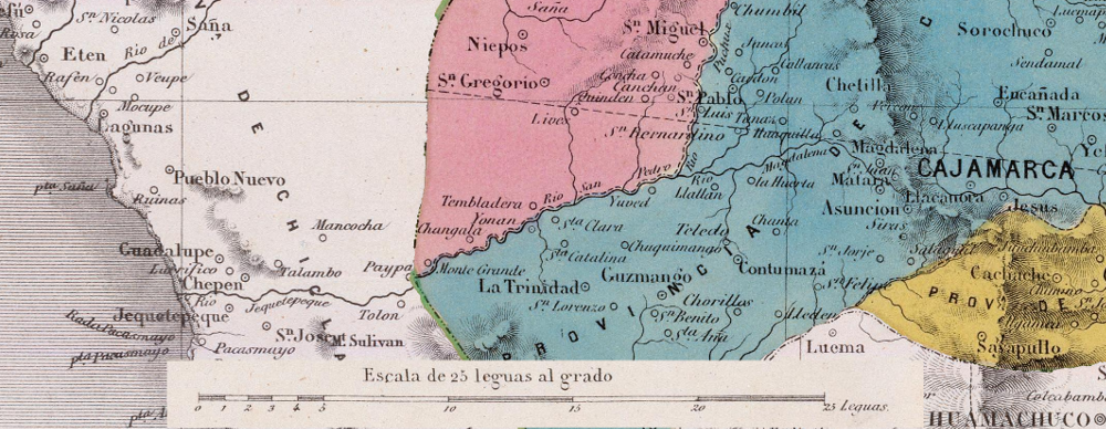 San Pablo, Peri